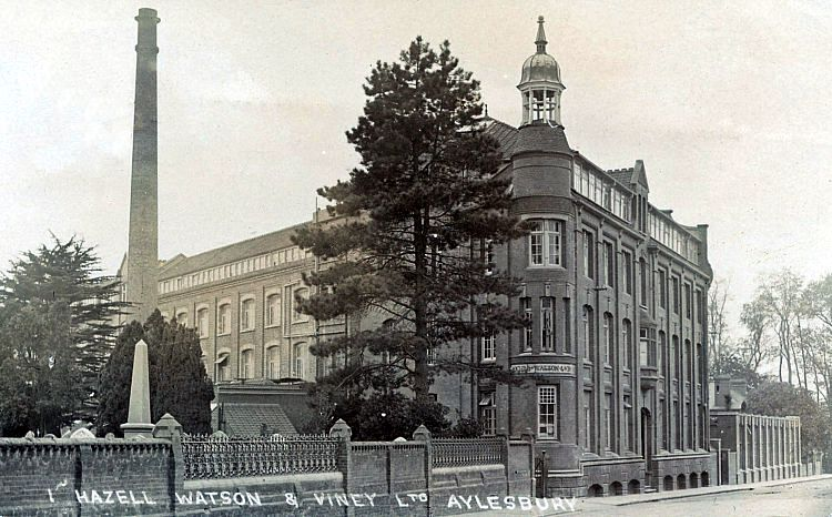 Aylesbury works of Hazell, Watson and Viney, printers